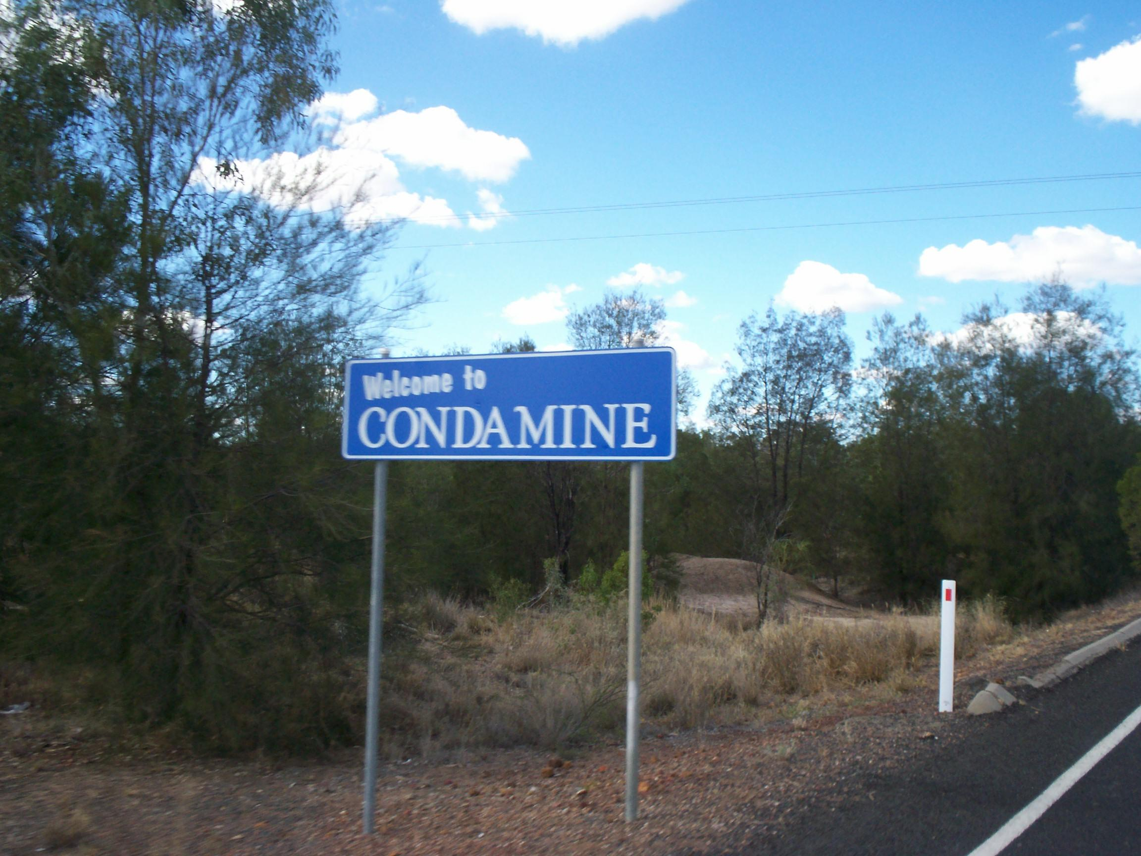 Sign entering Condamine, Queensland. Photograph taken by myself, May 14, en:2007